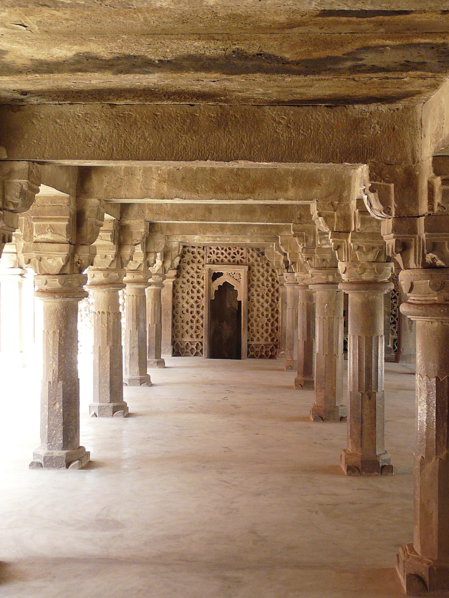 Pillared hall on the first floor over side arcade, Atala Masjid, Jaunpur